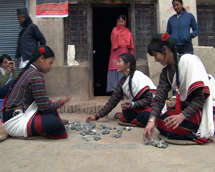 Newar girls playing pebbles